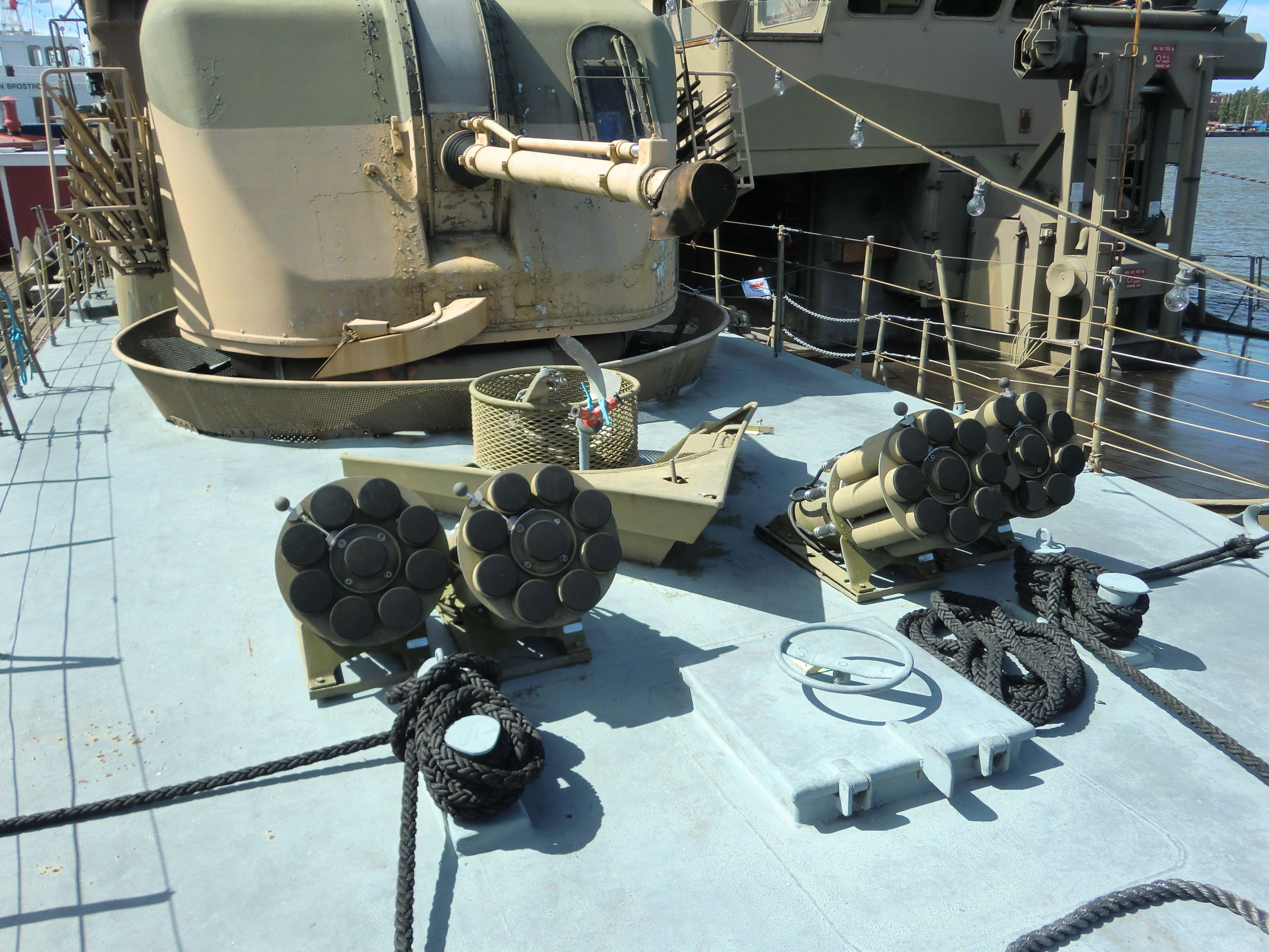 Anti-submarine mortarsystem Elma LLS-920 on the Swedish patrolboat HMS Hugin.